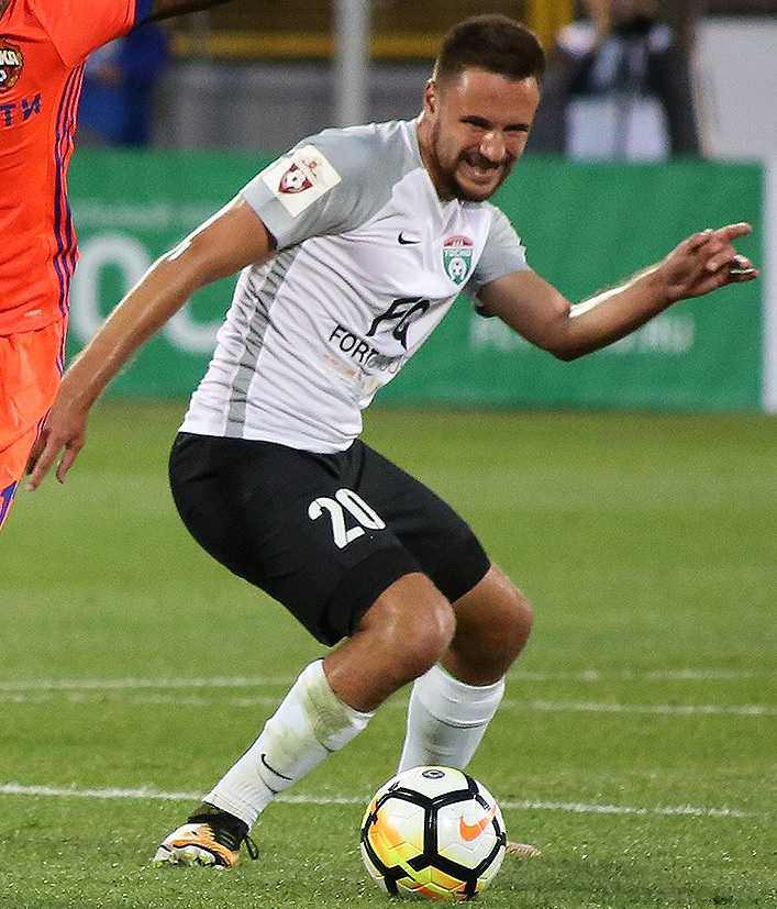 Yevgeni Markov with FC Tosno in a game against PFC CSKA Moscow.